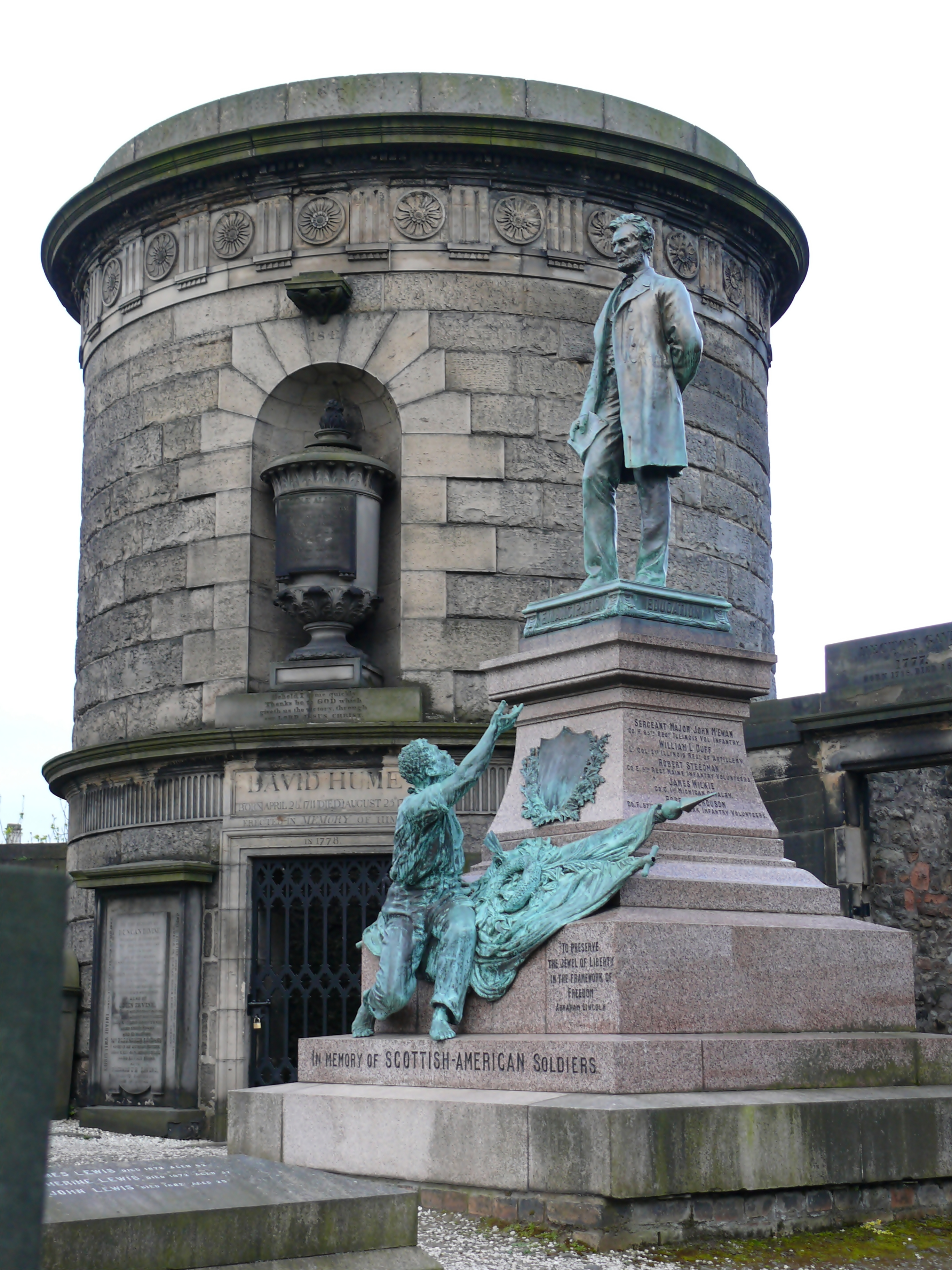 The Scottish – American Soldiers Monument, a memorial in the Old Calton Cemetery (Edinburgh Scotland) was raised in remembrance of the Scottish American Soldiers who fought in the American Civil War, it was unveiled in 1893. This is the only memorial dedicated to the American Civil War outside the USA. The bronze lifesize statue of Abraham Lincoln was created by the American sculptor George E. Bissell.The large cylindrical tower is the tomb of the philosopher David Hume, it was designed by Robert Adam in 1777.